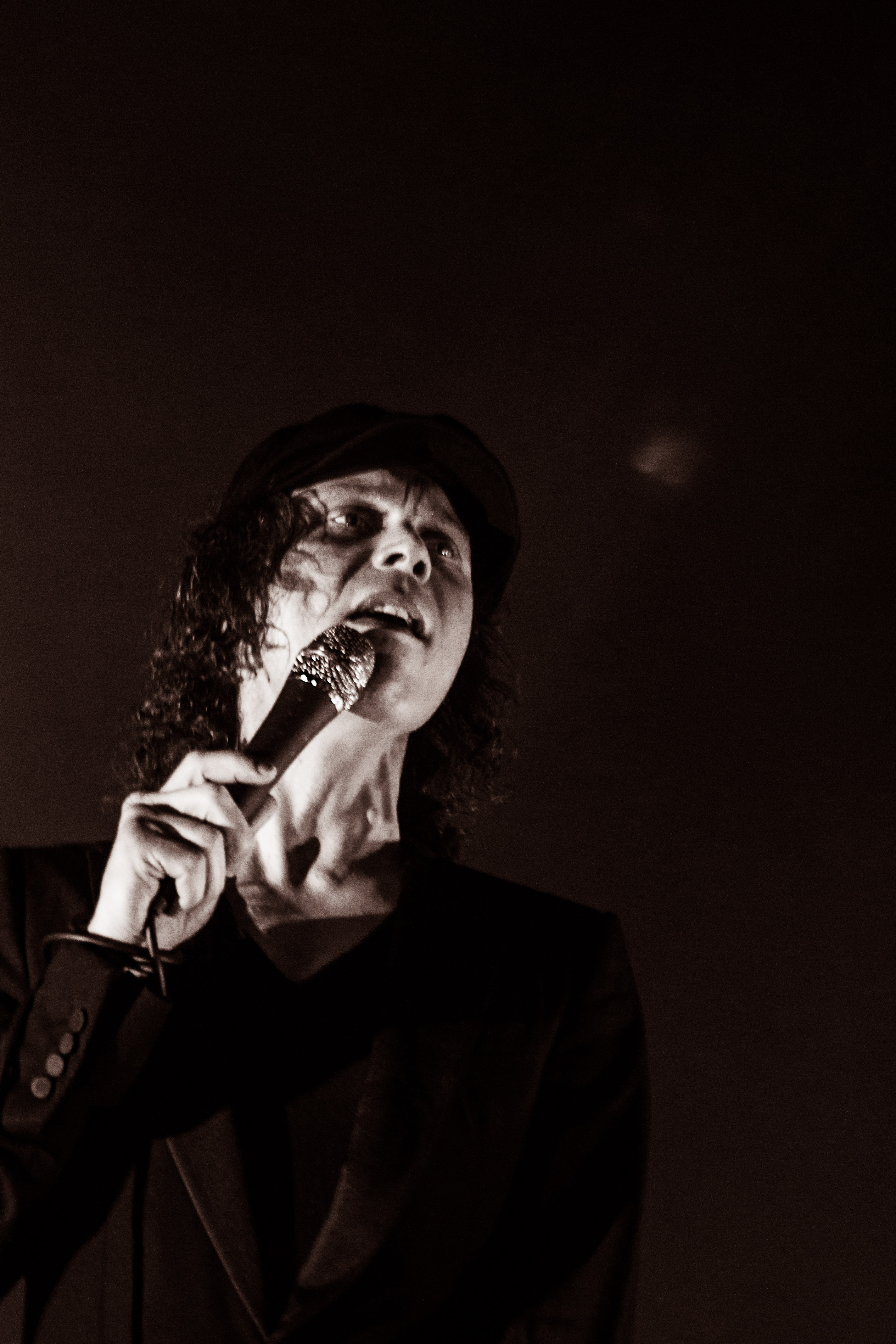 Him performing in São Paulo, Brazil on March 30, 2014.